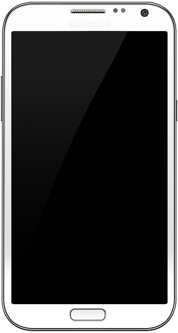 Samsung Galaxy Note II render